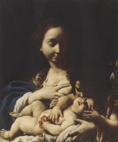 Virgin and Child and San Juanito